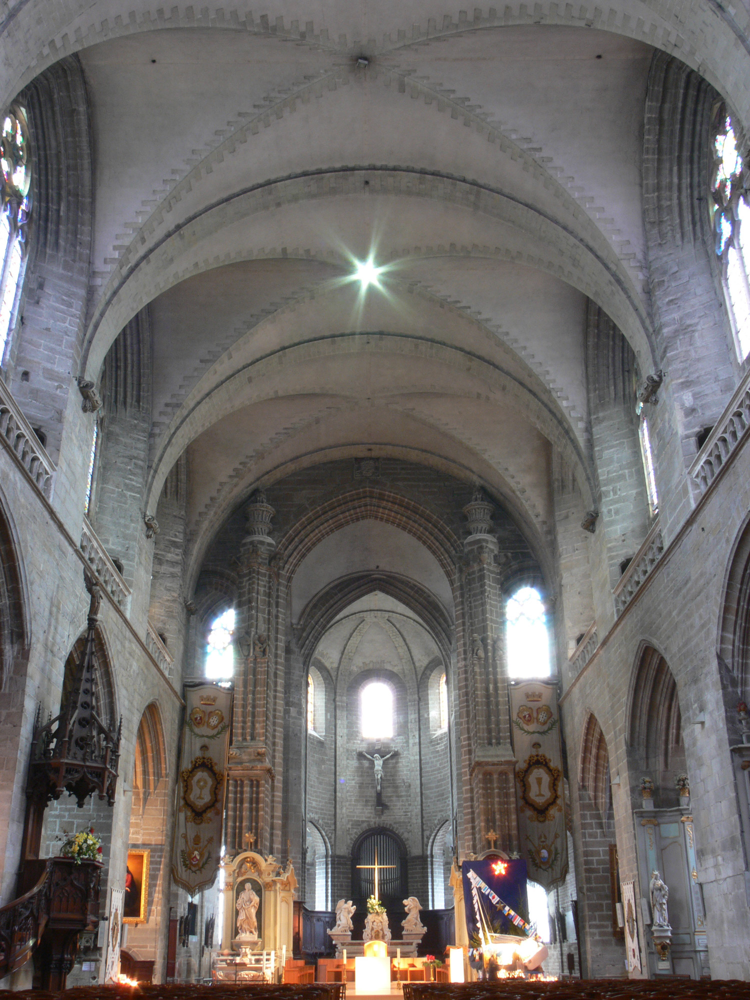 The nave with the Choir of the Cathedrale of Vannes, France